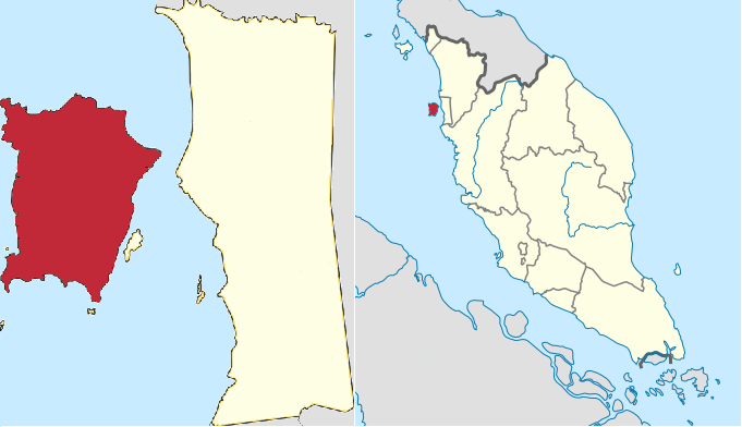 Penang Island (red) in Penang and West Malaysia (to be used in Penang Island infobox)